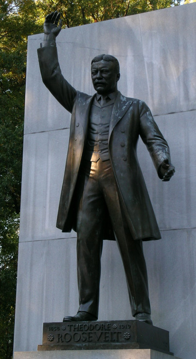 Statue of Theodore Roosevelt on Theodore Roosevelt Island in the Potomac River, Washington, DC.